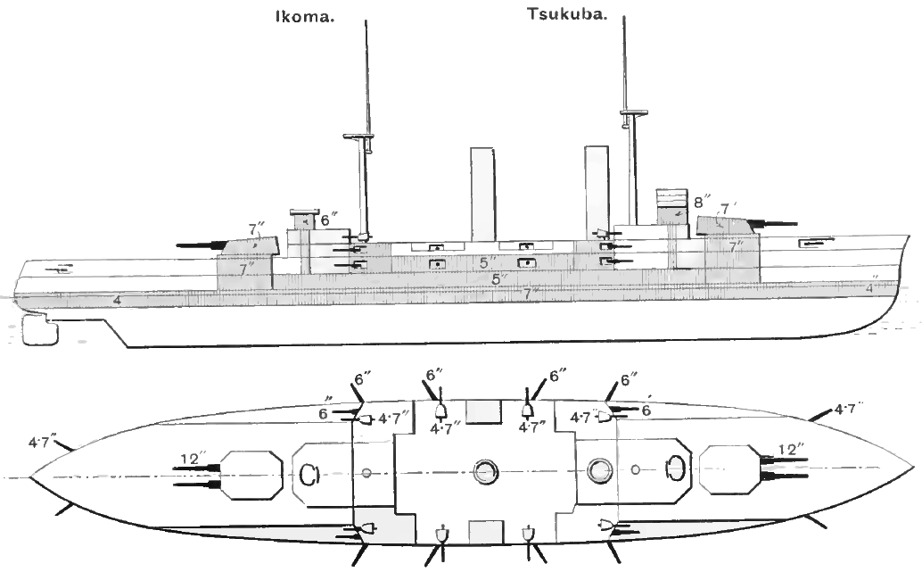 Sketch of the Japanese armoured cruiser Tsukuba class (armour is darkened).